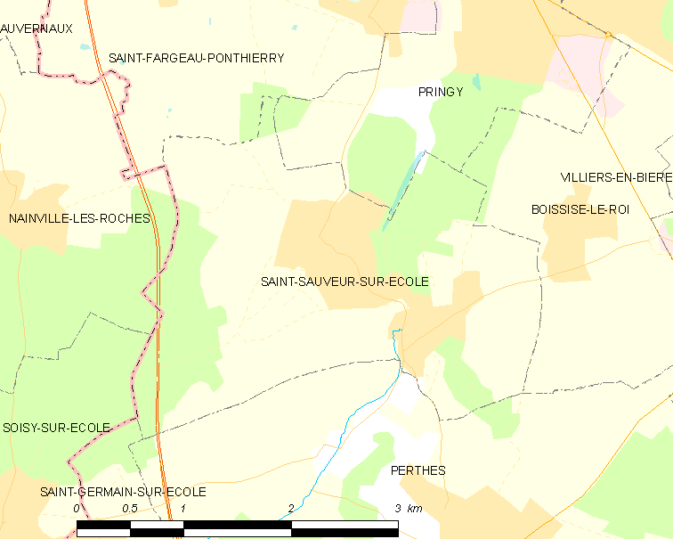 Map of French municipality Saint-Sauveur-sur-École